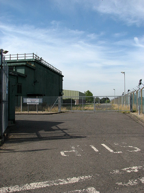 RAF Radar Museum Entrance to the RAF radar museum in Neatishead. Both RAF Neatishead and RAF Coltishall are now closed and the future of the still open (to-date) RAF Radar Museum in Neatishead may be uncertain. The first radar system was installed here in September 1941, and after the war the station was established as a Sector Operations Centre and in use until 1993. A year later the original operations building, which housed the old equipment, was converted into the Air Defence Radar Museum, and after the closure of RAF Coltishall on 1st April 2006, the RAF Coltishall Memorial Room was opened - it houses a collection of photographs, trophies, memorials and artifacts. The RAF Radar Museum has won the 2007 Gold Award for 'Best Small Visitor Attraction" in England. For more information